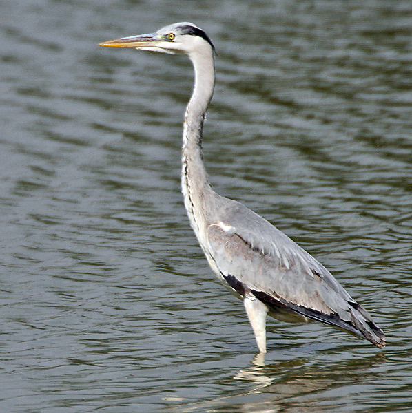 Grey Heron Ardea cinerea at Keoladeo National Park, Bharatpur, Rajasthan, India.